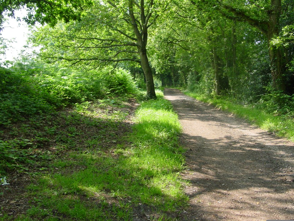 The Roman Road that runs along the edge of the village of Corfe Mullen. The original road is the overgrown bank on the left, not the farm track on the right.